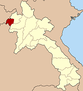 Map of Laos highlighting the province Bokeo (before 1992).